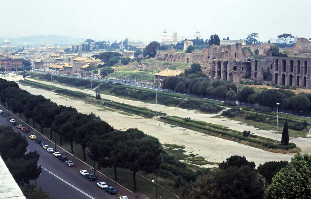 picture of the Circus Maximus, Rome, Italy